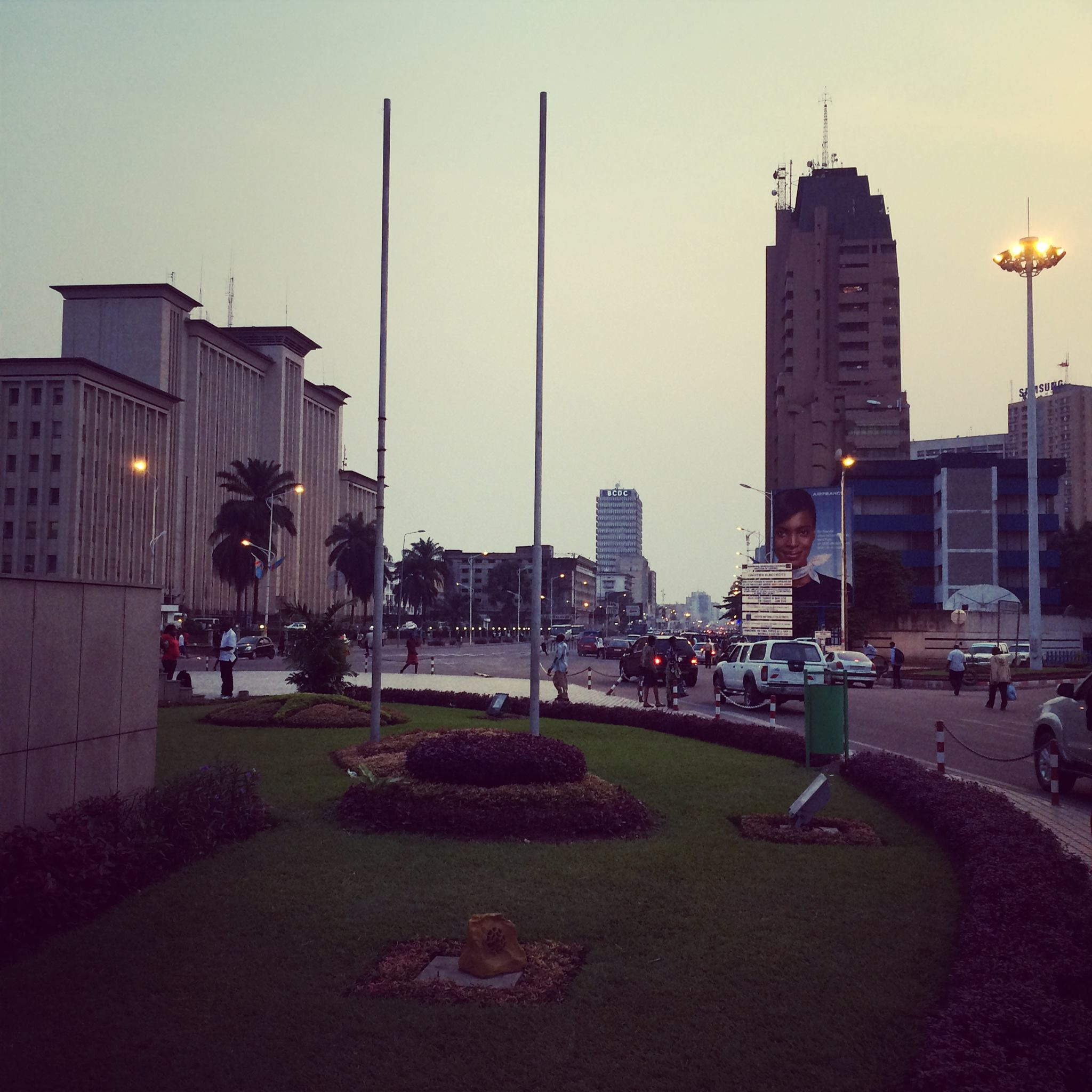 Gombe